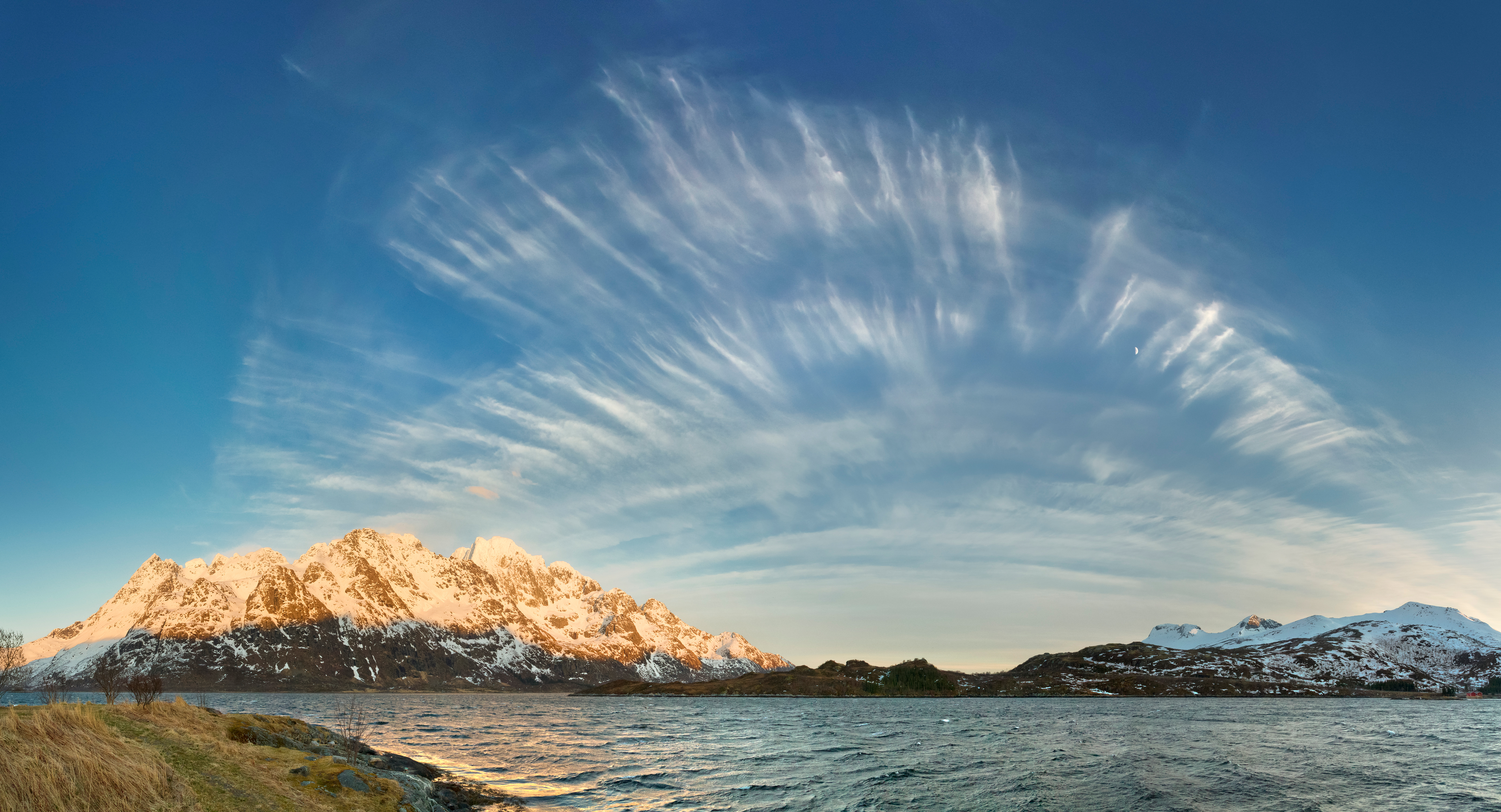 A Cirrus fibratus cloud front on evening sky as seen over Austnesfjorden from Sildpollneset in Austvågøya, Lofoten, Norway in 2015 April.